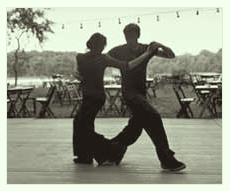 Tango dancing - Vincent and Maryline